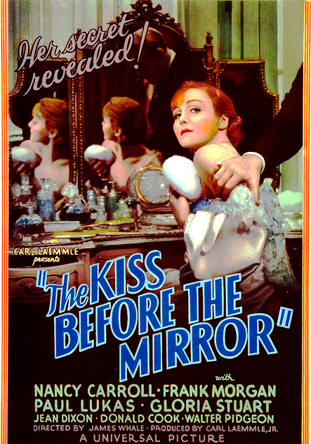 Original poster for The Kiss Before the Mirror